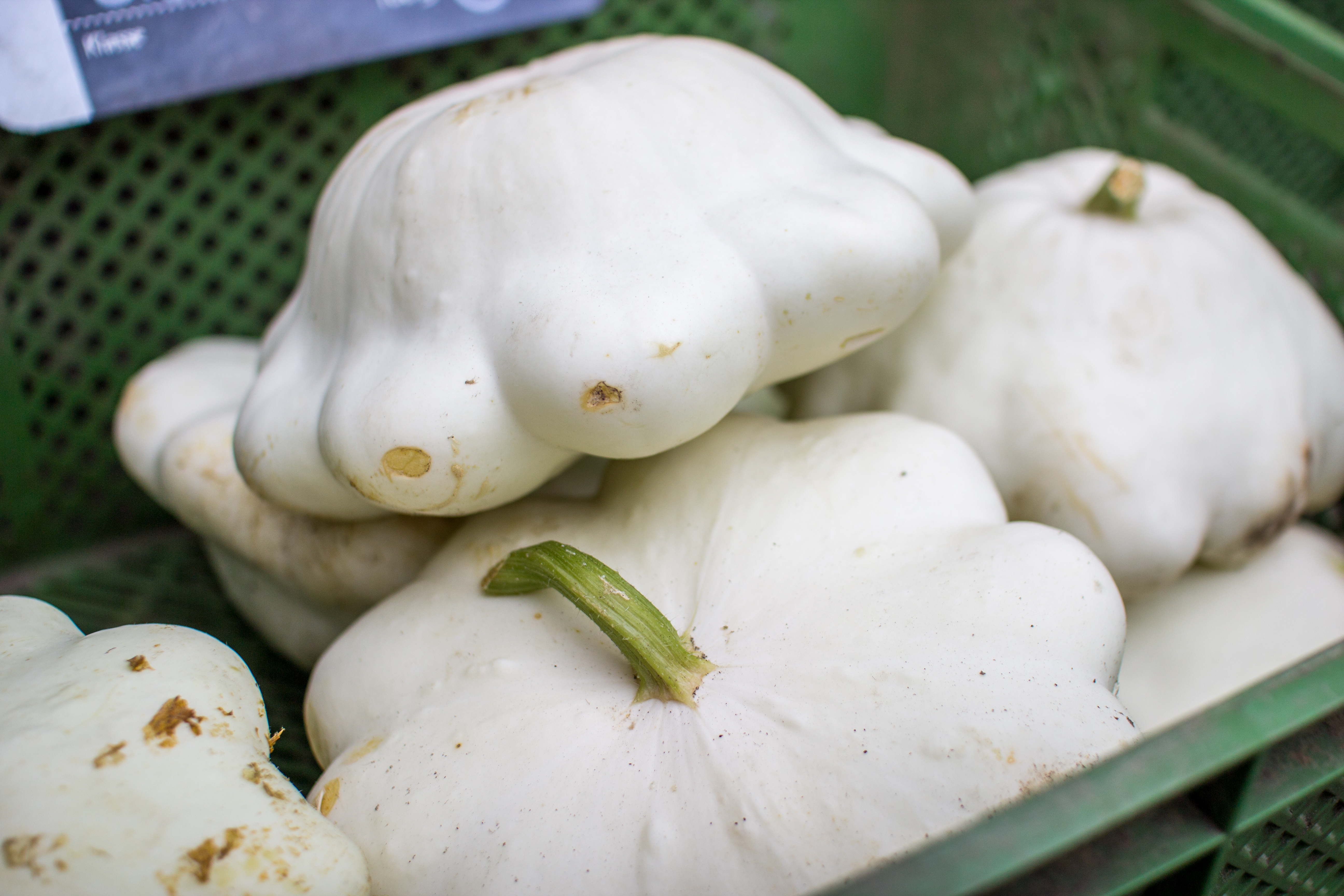 Wochenmarkt Foto-Lizenz: Creative Commons CC-BY Oliver Hallmann